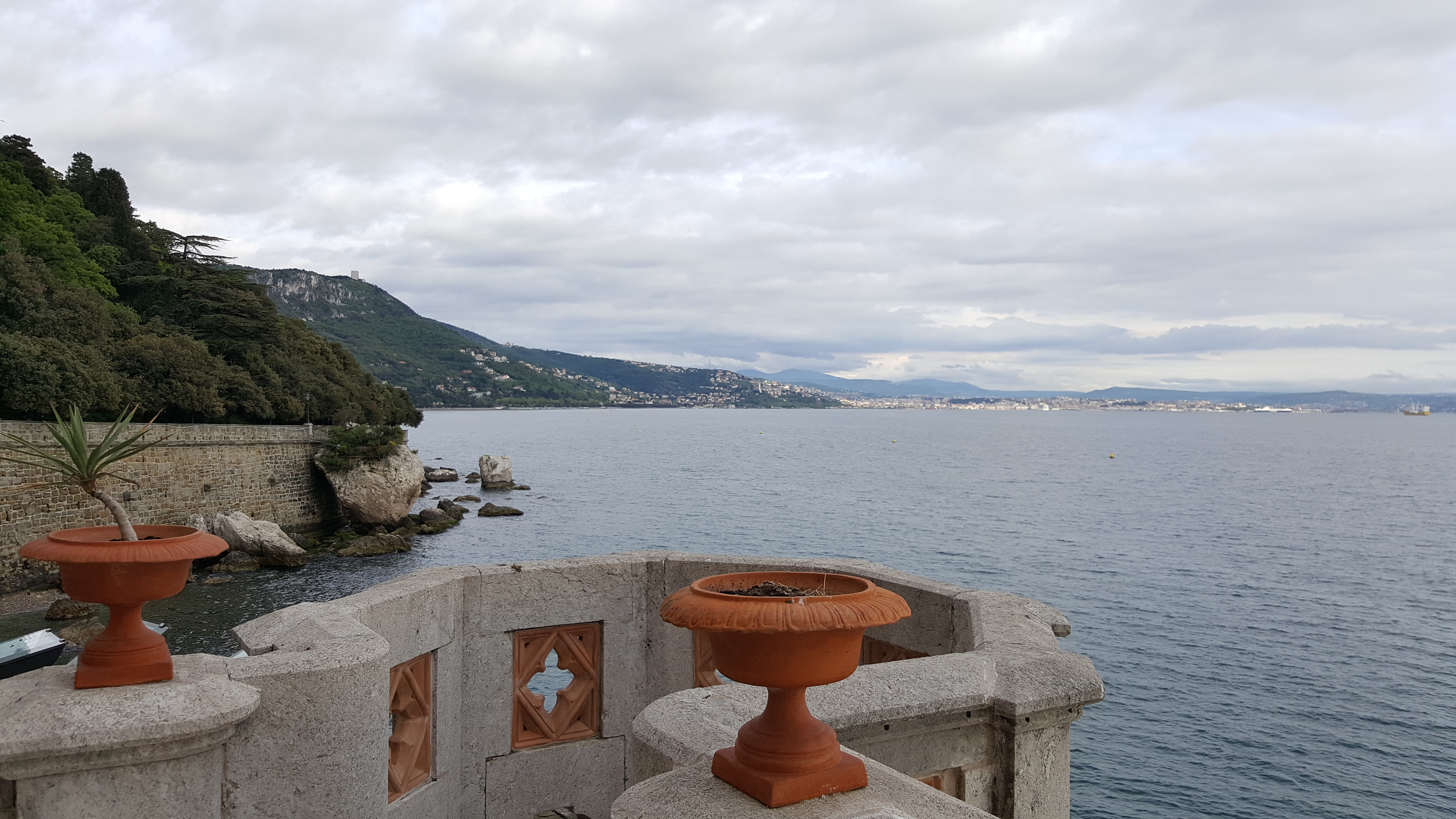 This is a photo of a monument which is part of cultural heritage of Italy. The authorisation for taking photos of this object was provided by the World Wide Fund for Nature Italy.